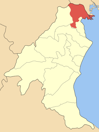 Locator map of Aiginiou municipality (Δήμος Αιγινίου) at Pierias perfecture, Greece.